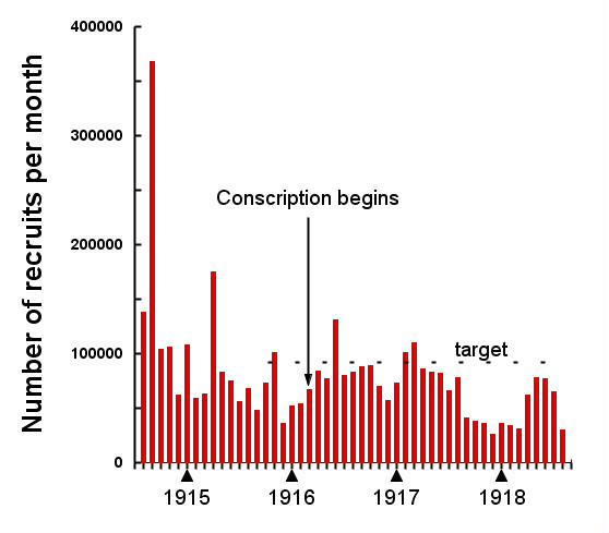 British army recruiting 1914-1918